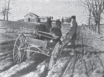 Horse-drawn wagon on muddy road in Illinois, c. 1903